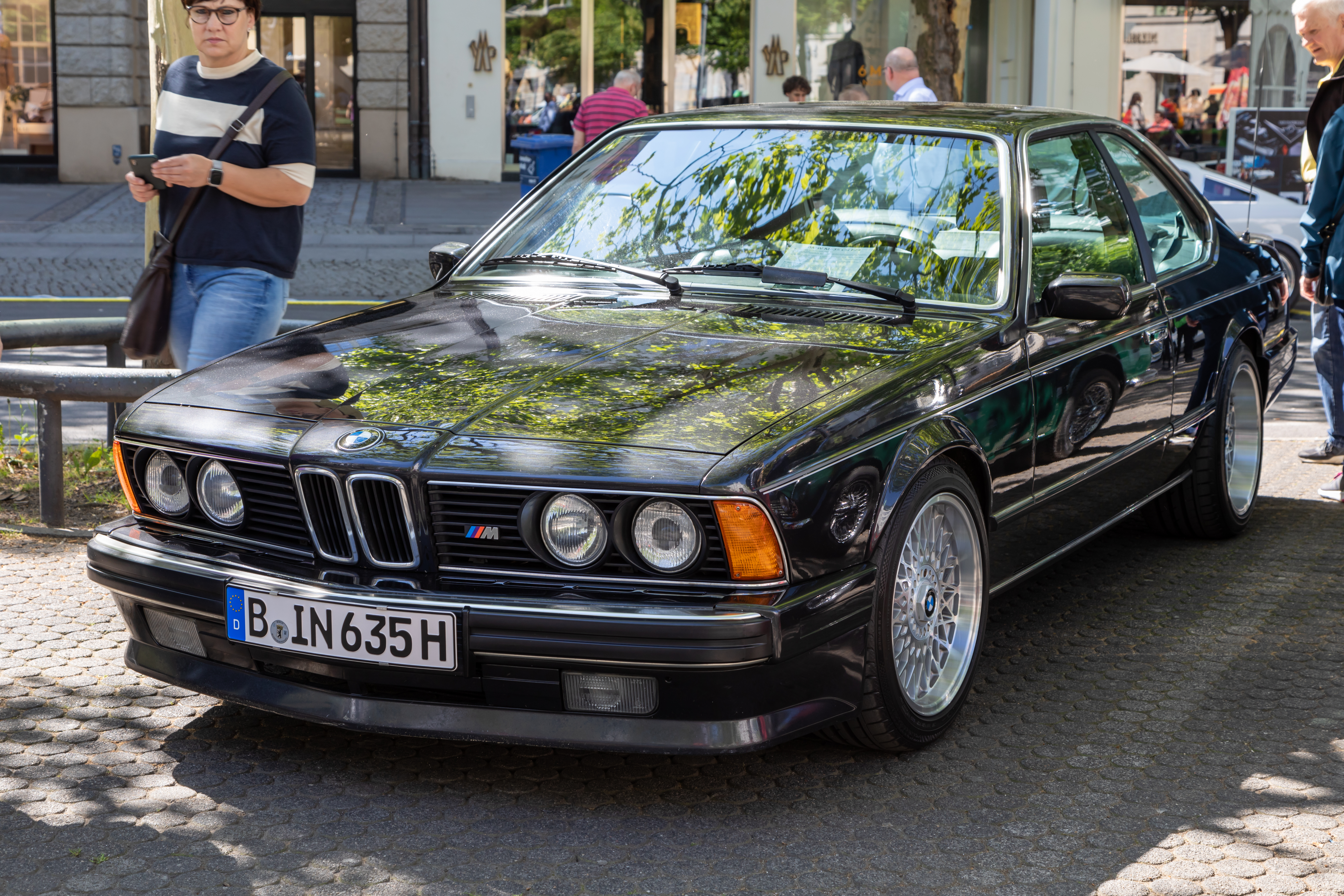 BMW M 635CSi at Classic Days Berlin 2019, Kurfürstendamm, Berlin-Charlottenburg